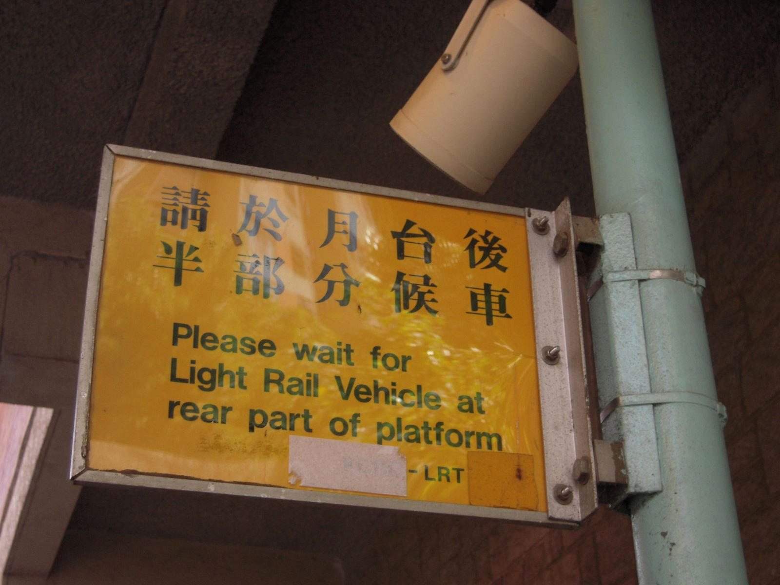 The notice placed in Shan King South Stop of Light Rail, MTR, Hong Kong